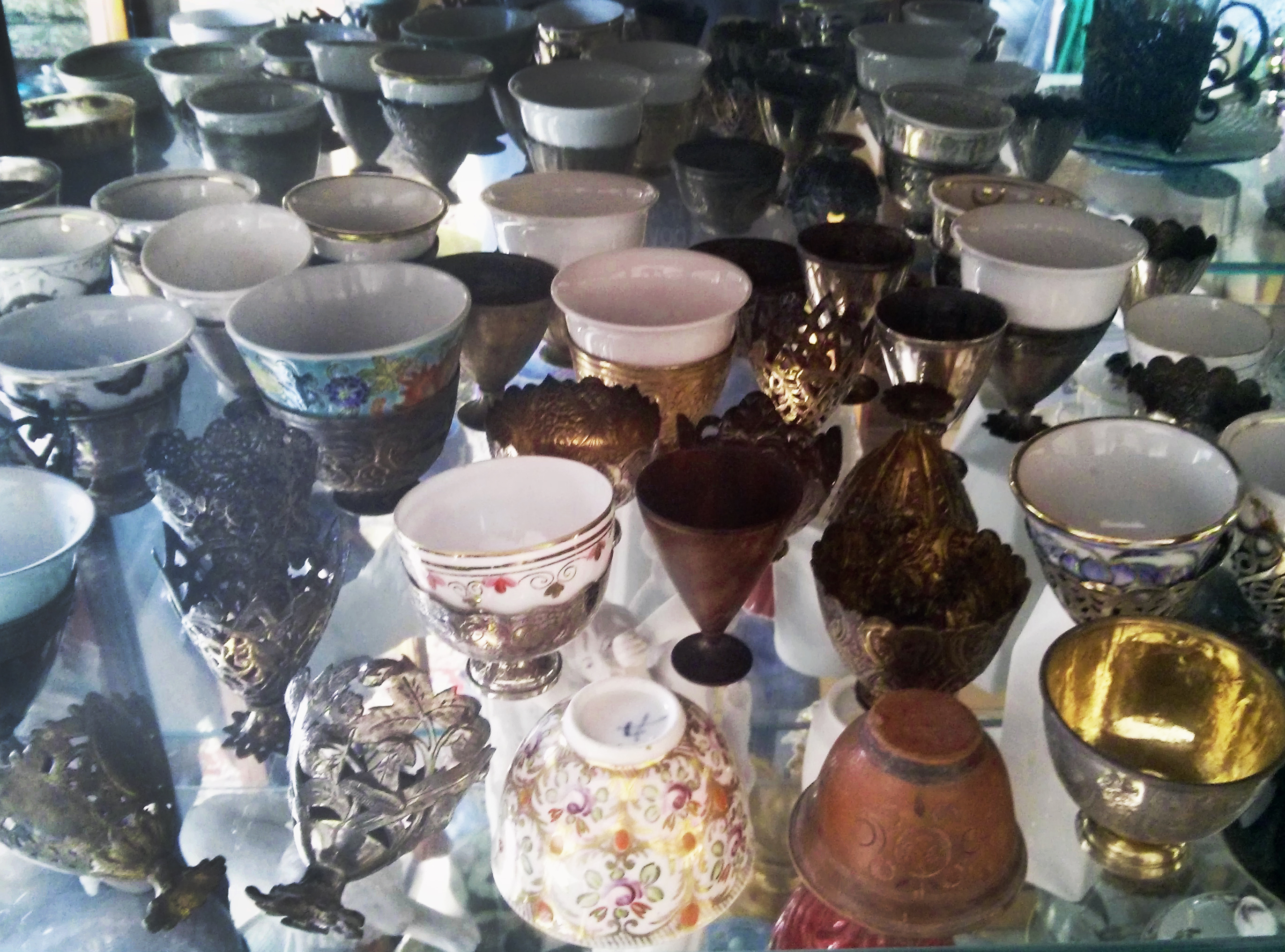 Collection of Ottoman era Turkish coffee zarfs. Including sterling silver, tombak (gilt copper), wood and copper examples, shown with porcelain cups (fincan) made in Germany, Russa and China. 18th-19th century. Adnan Ege Kutay collection.